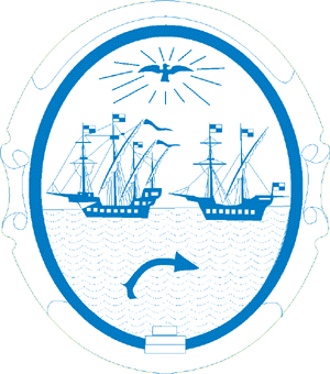 Coat of arms of the city of Buenos Aires